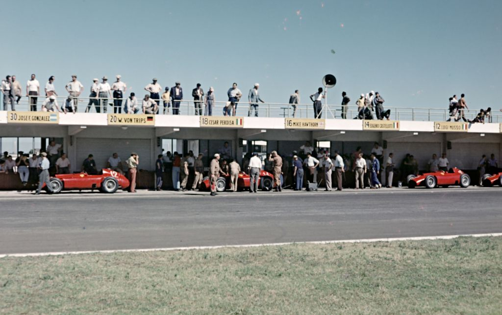 The pits at the 1957 Argentine Grand Prix. Photo by Carlos Alberto Navarro.